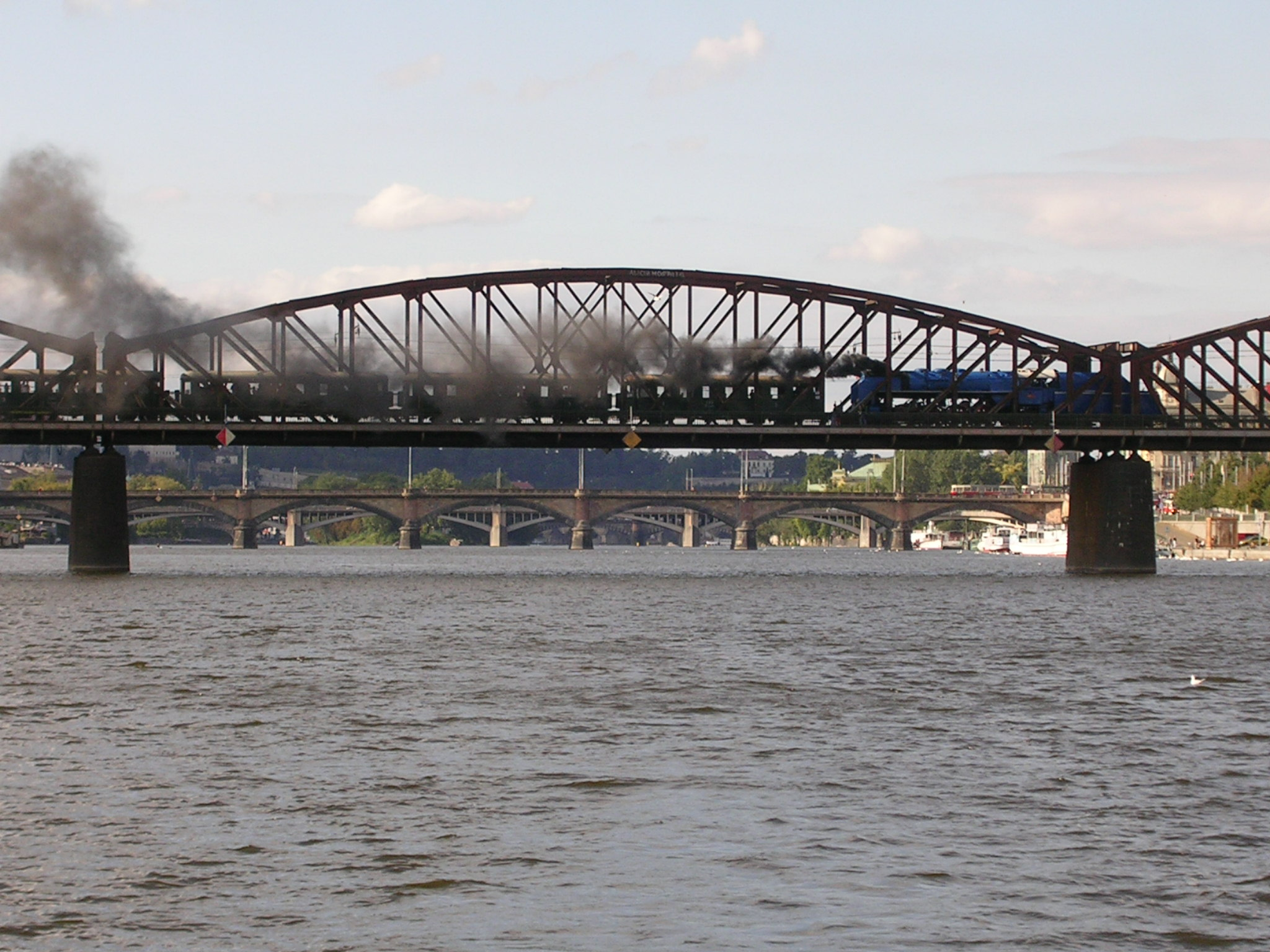 Prague, the Czech Republic. Historic steam train.